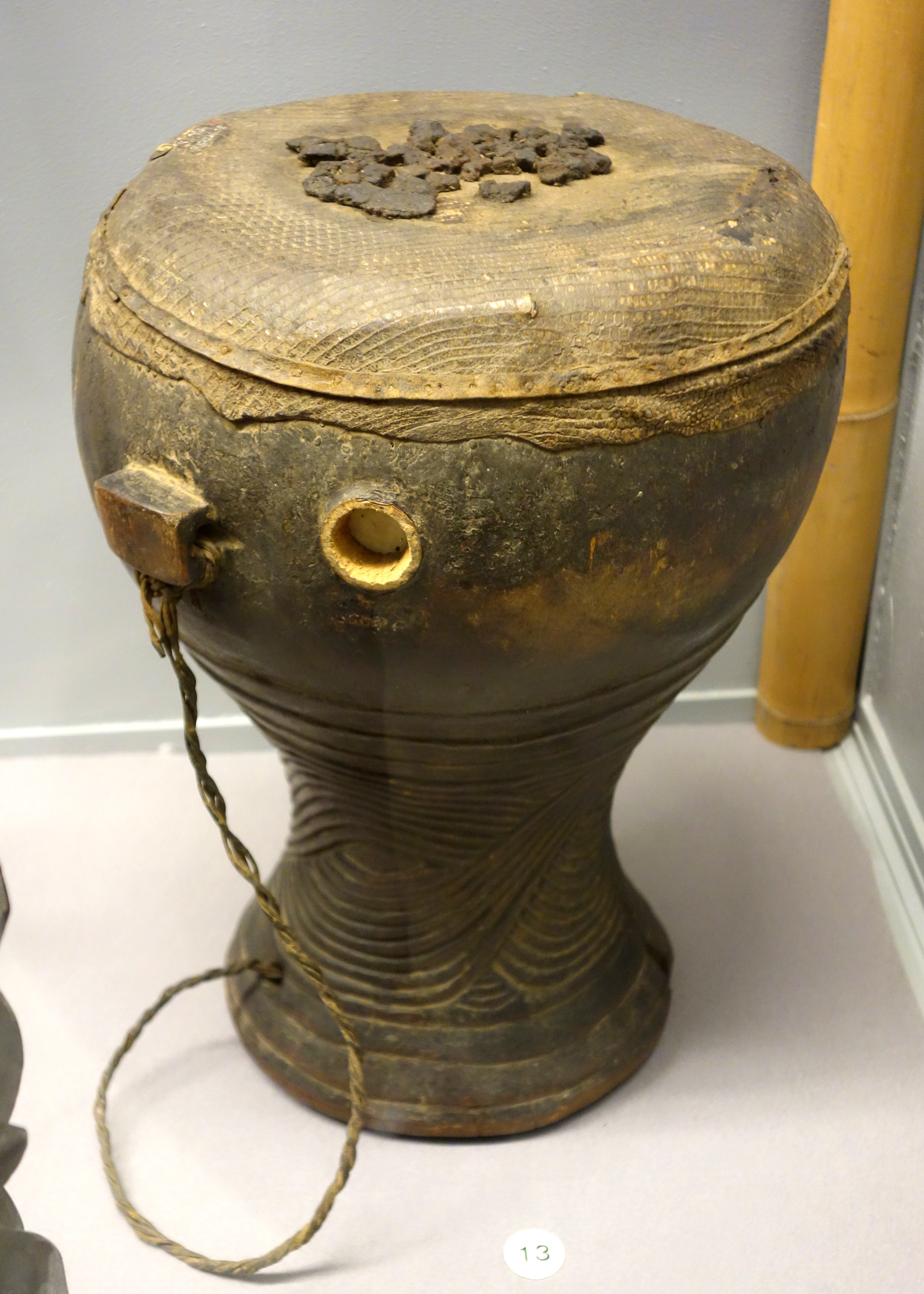 Exhibit in the Royal Museum for Central Africa, Tervuren, Belgium. This object is old enough so that it is in the public domain.